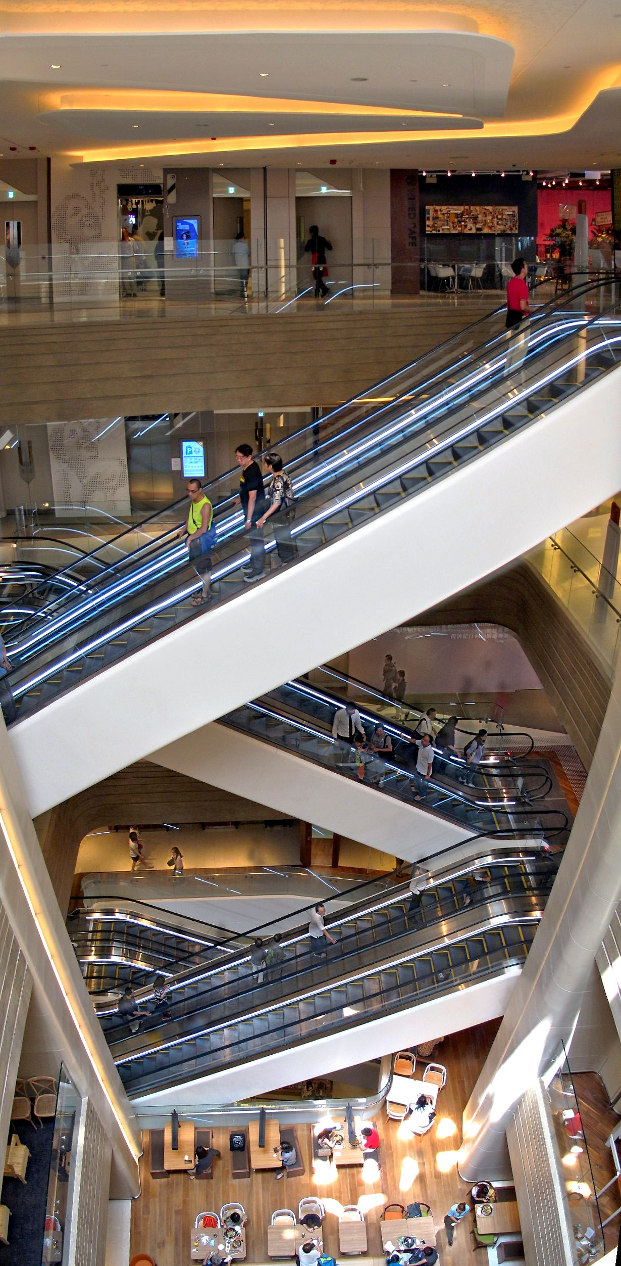 Hysan Place Void 1